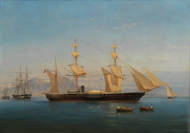 HMS Majicienne in the Bay of Naples, 1886